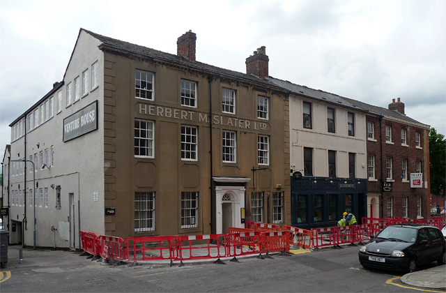 105-113 Arundel Street, Sheffield, England